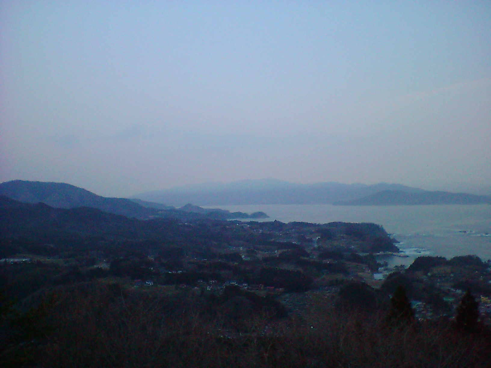 Took it from the top of Isaribi Park.